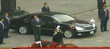 Peruvian Official State Car